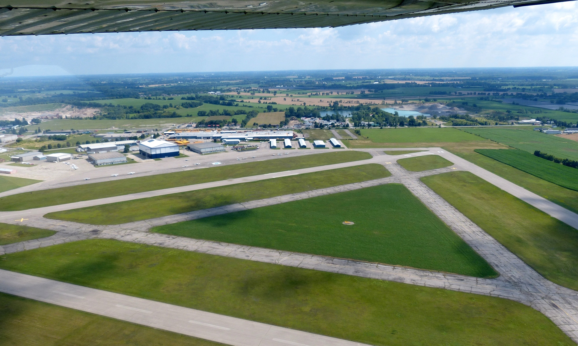 This picture shows the details of the runways at Brantford Airport, and the areas to be avoided. The parallel interior runways are marked with a yellow "X" at their thresholds. These runways are not maintained and should not be used. The yellow wind tee is in the center of the airfield. An elegant white and blue compass rose is painted on the apron, and is conspicuous. Pilot-in-command Tristan Fisher flying Cessna 172 CF-BSL, owned by the Brantford Flying Club.